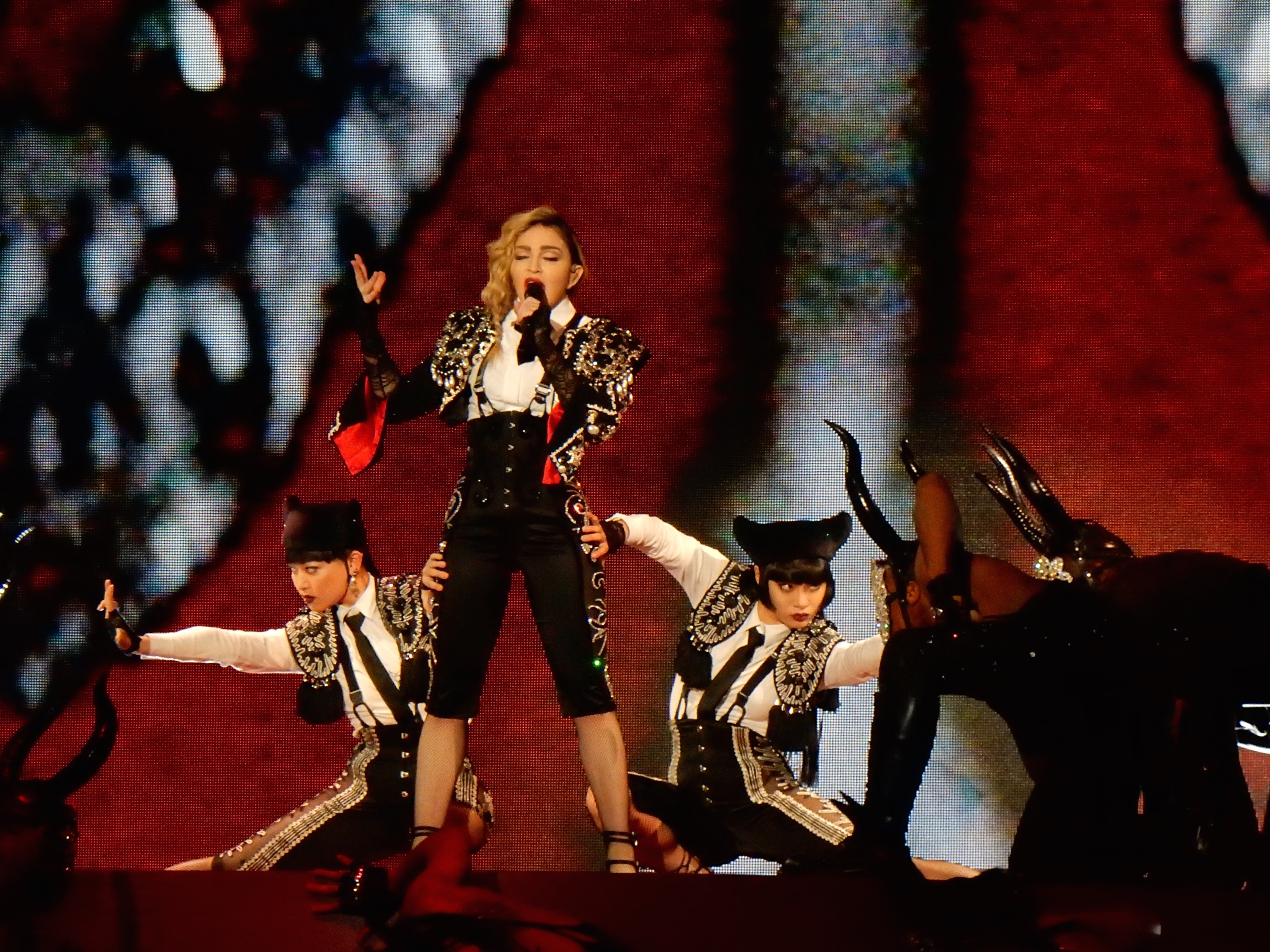 Rebel Heart Tour 2016 - Brisbane 2